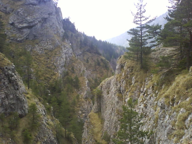 Kvacianska valley